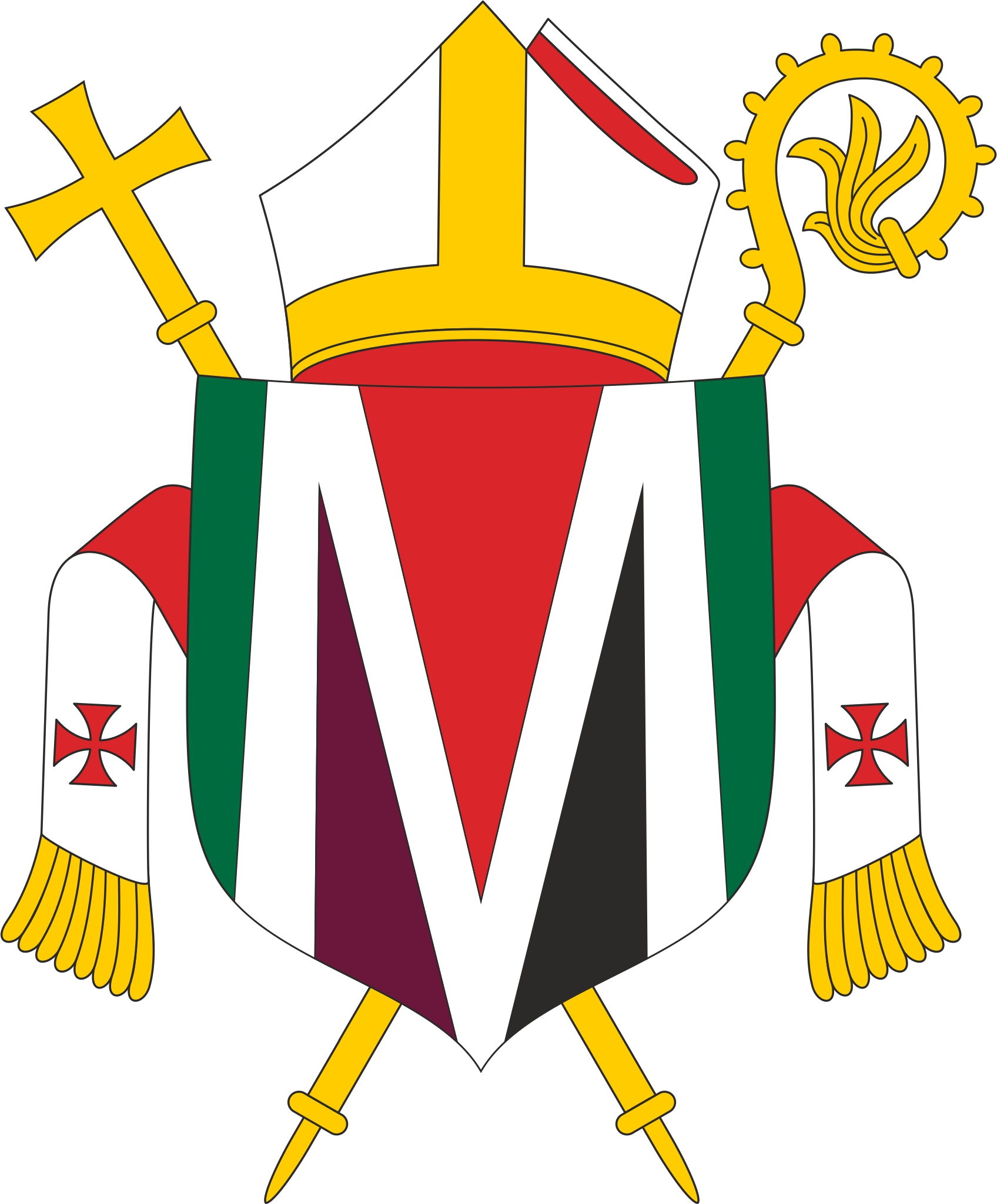 Coat of arms of Apostolic Vicariate of Northern Arabia